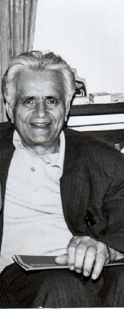 Bulgarian poet Assen Bossev